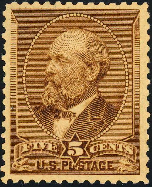 US Postage Stamp: James Garfield, Issue of 1882, 5cThe first Garfield postage stamp.